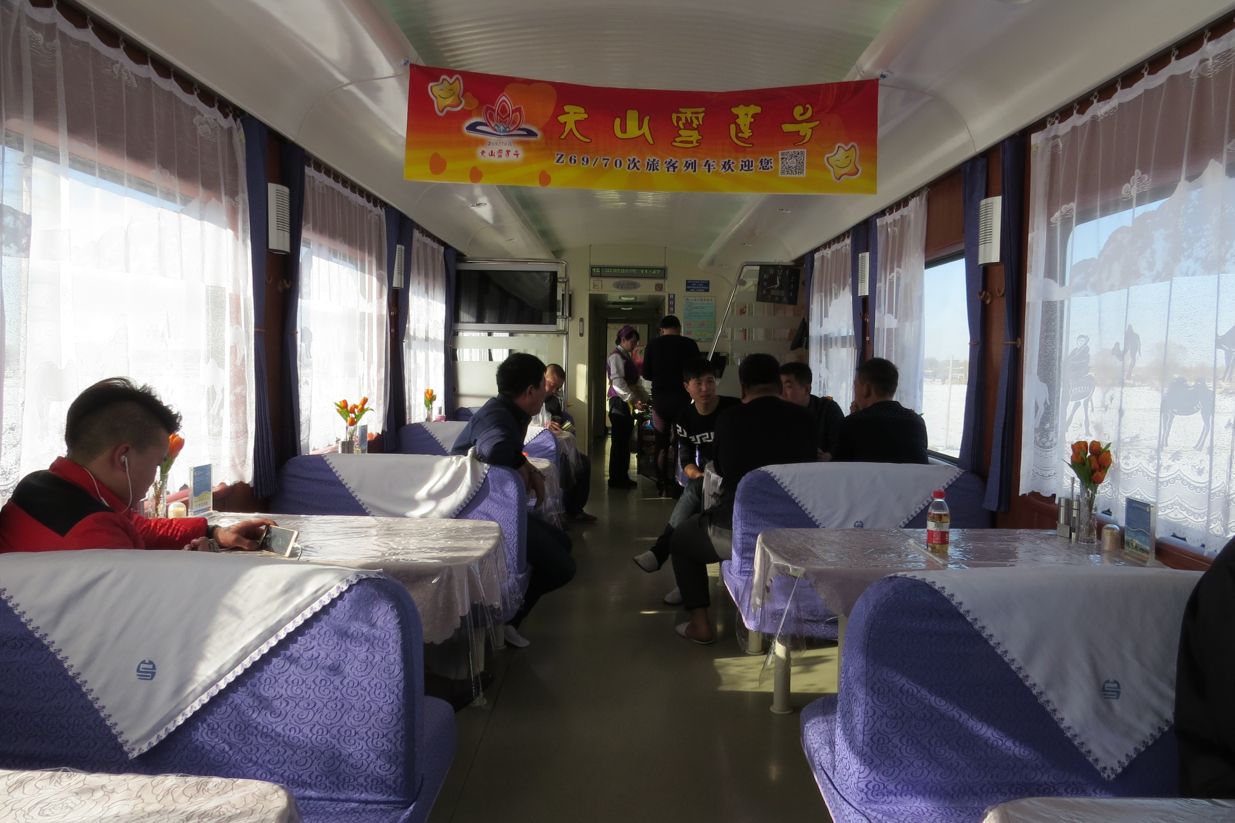 Z70 en route from Urumqi South to Beijing West.